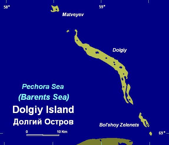 Dolgiy and its adjacent small islands. Dolgiy is a Russian island in the Pechora Sea.